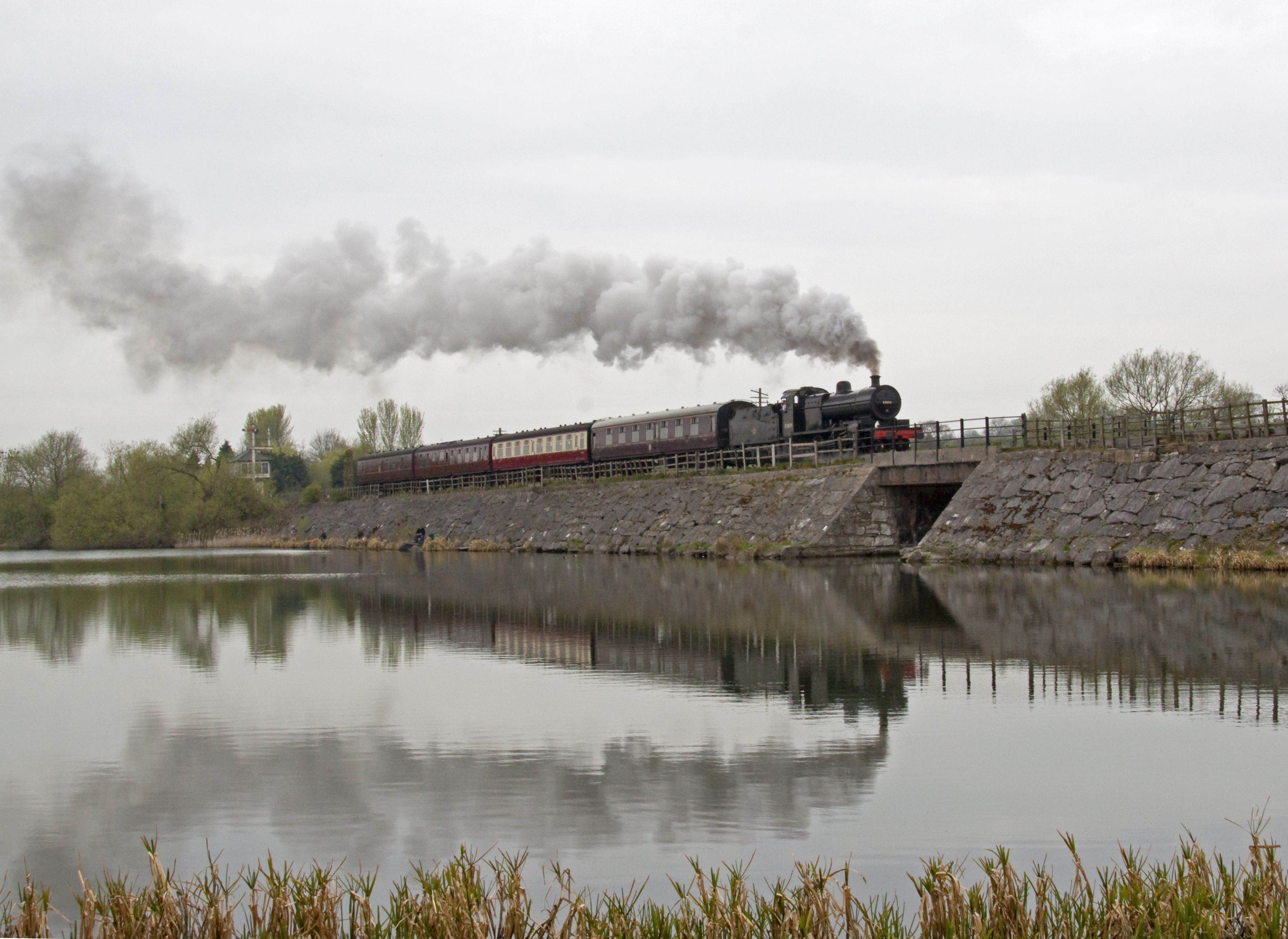 Preserved steam locomotive S&DJR 7F 2-8-0 No. 53809 crossing Butterley Reservior at the Midland Railway - Butterley heritage railway.